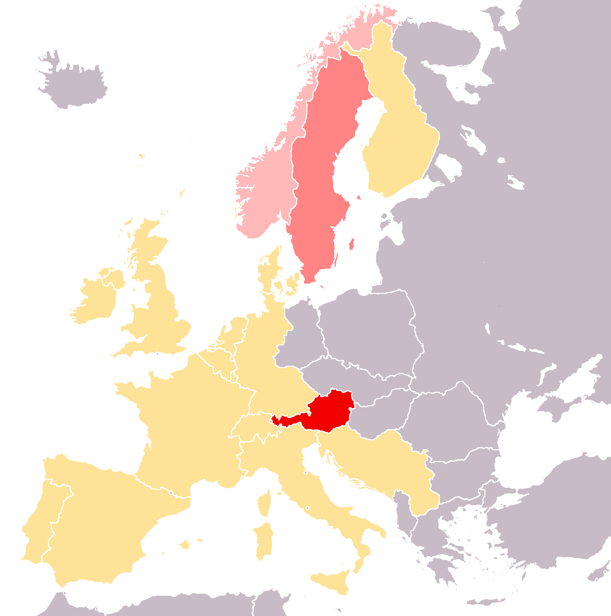 Map of Eurovision 1966